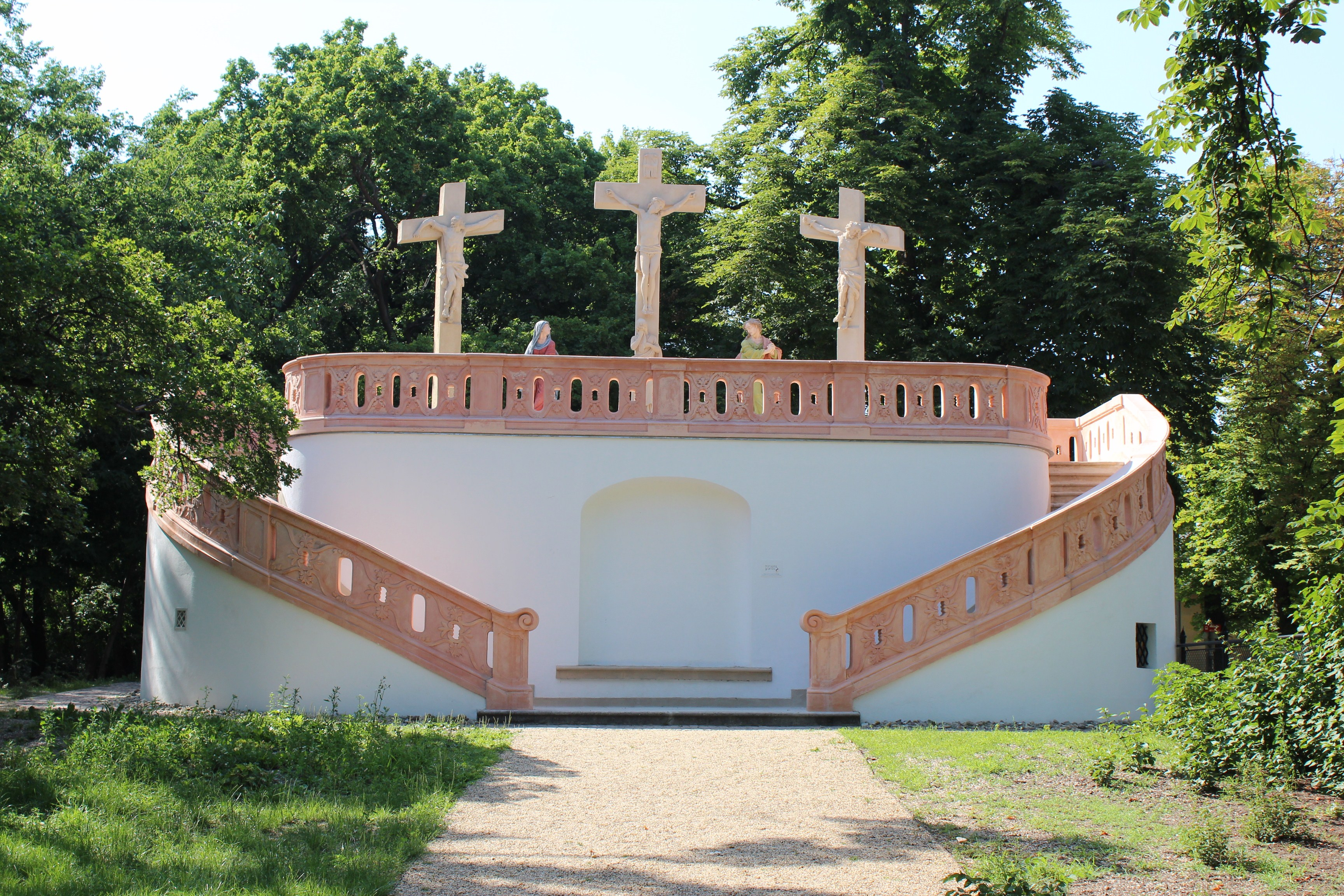 Calvary sculpture in Gödöllő